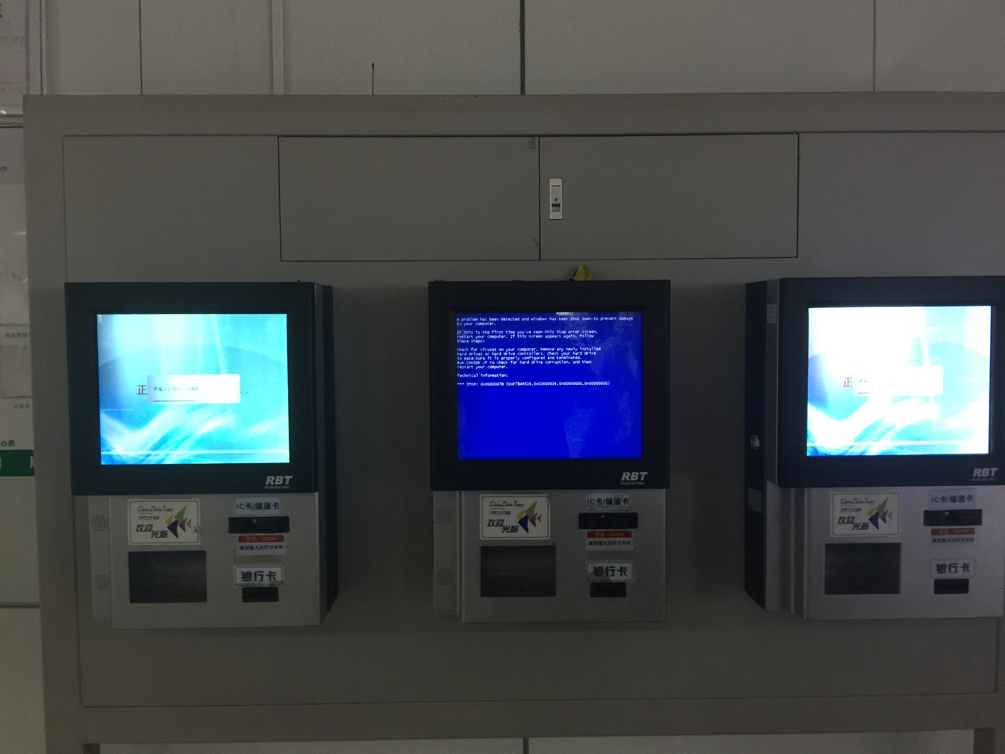 Blue Screen of Death at the University Town station on Line 5 of the Shenzhen Metro